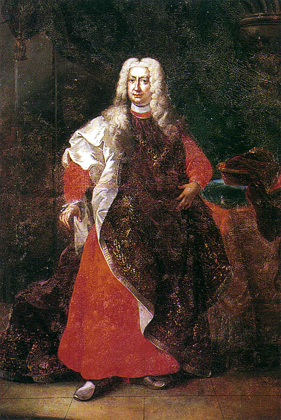 Portrait of Adam Prince of Schwarzenberg (1680-1732)